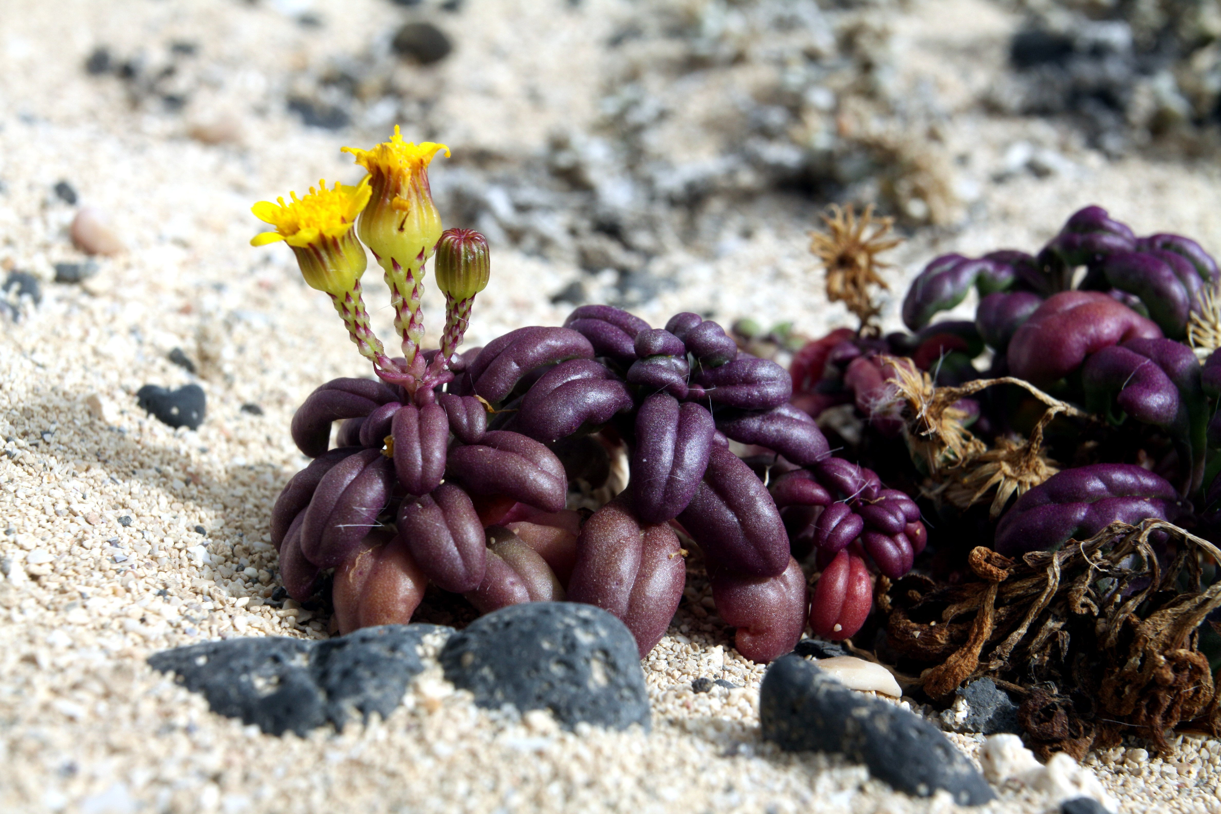 Senecio leucanthemifolius on the beach close to Órzola on Lanzarote, The Canary Islands, Spain